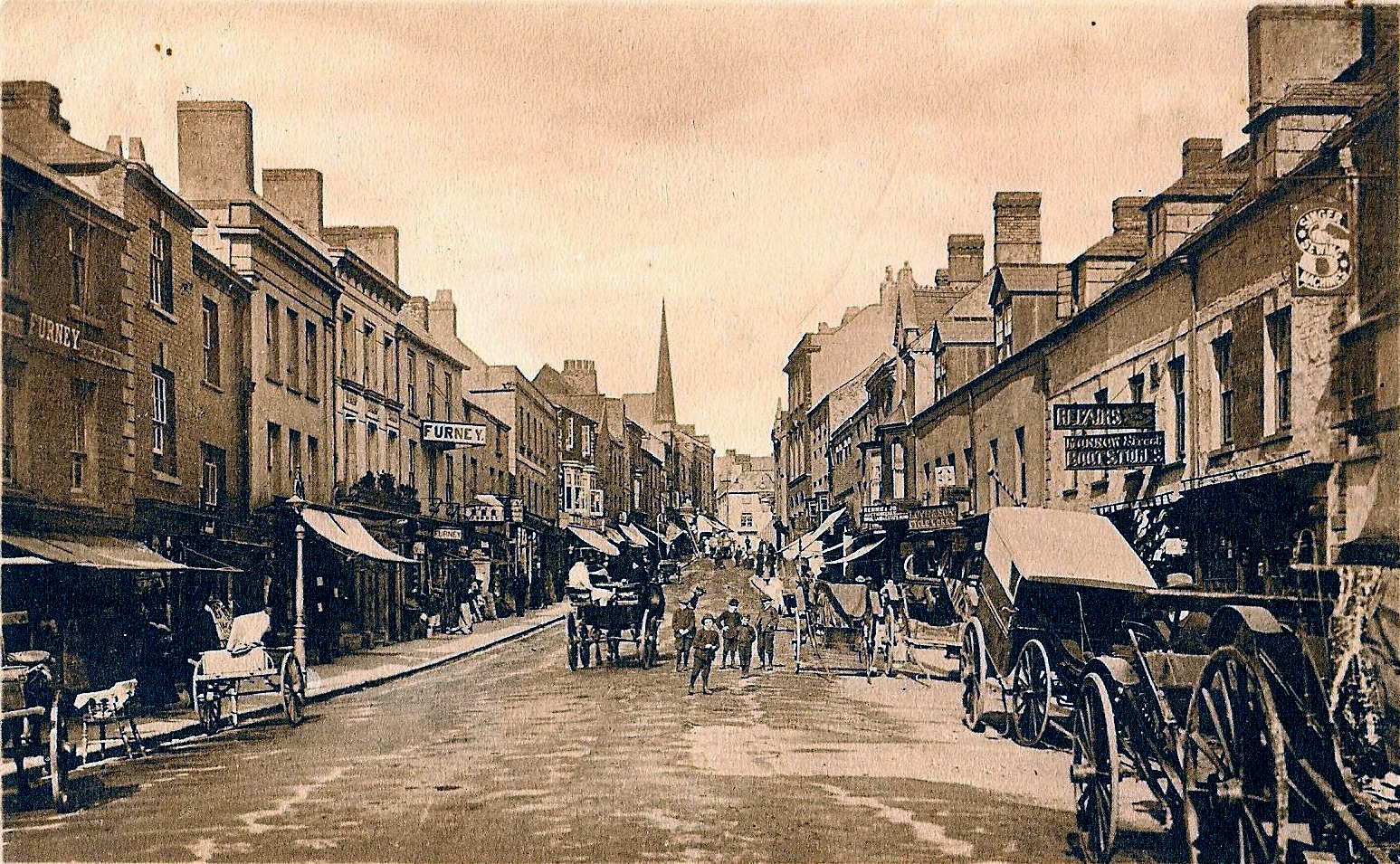 Monmouth Monnow Street 1918